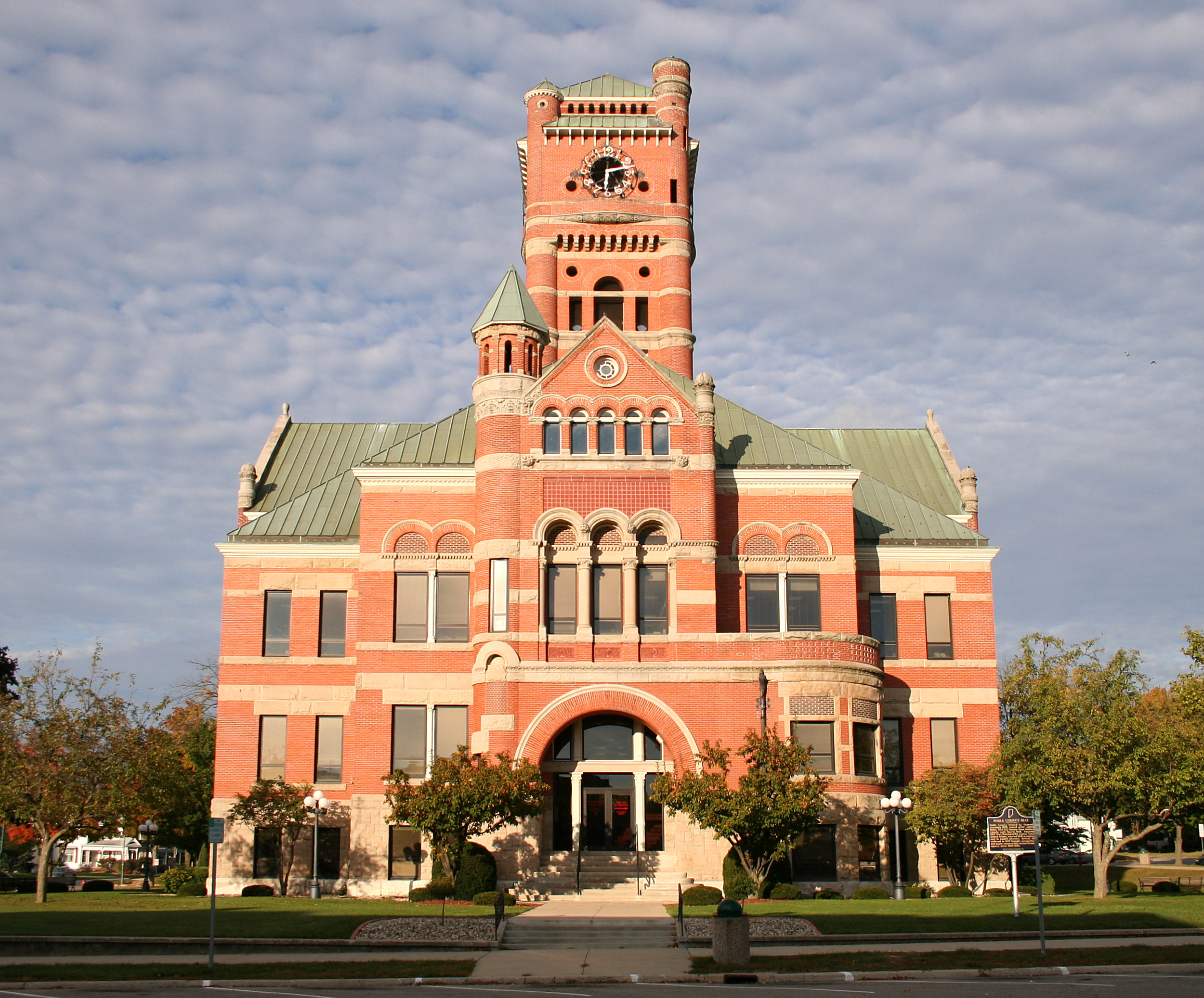 Noble County courthouse in Albion, Indiana. The plaque in front reads: :NOBLE COUNTY SEAT :Noble County formed by General :Assembly 1836; named after James :Noble, first U.S. Senator from Indiana. :County seats Sparta 1836, Augusta :1837, Port Mitchell 1844. Center, later :named Albion, selected 1846 as county :seat in runoff election. Arrival of :railroad in 1874 brought prosperity :and major construction on courthouse :square circa 1880-1890. The cornerstone reads: :LAID BY THE :PIONEERS OF NOBLE COUNTY :MAY 29, 1888.